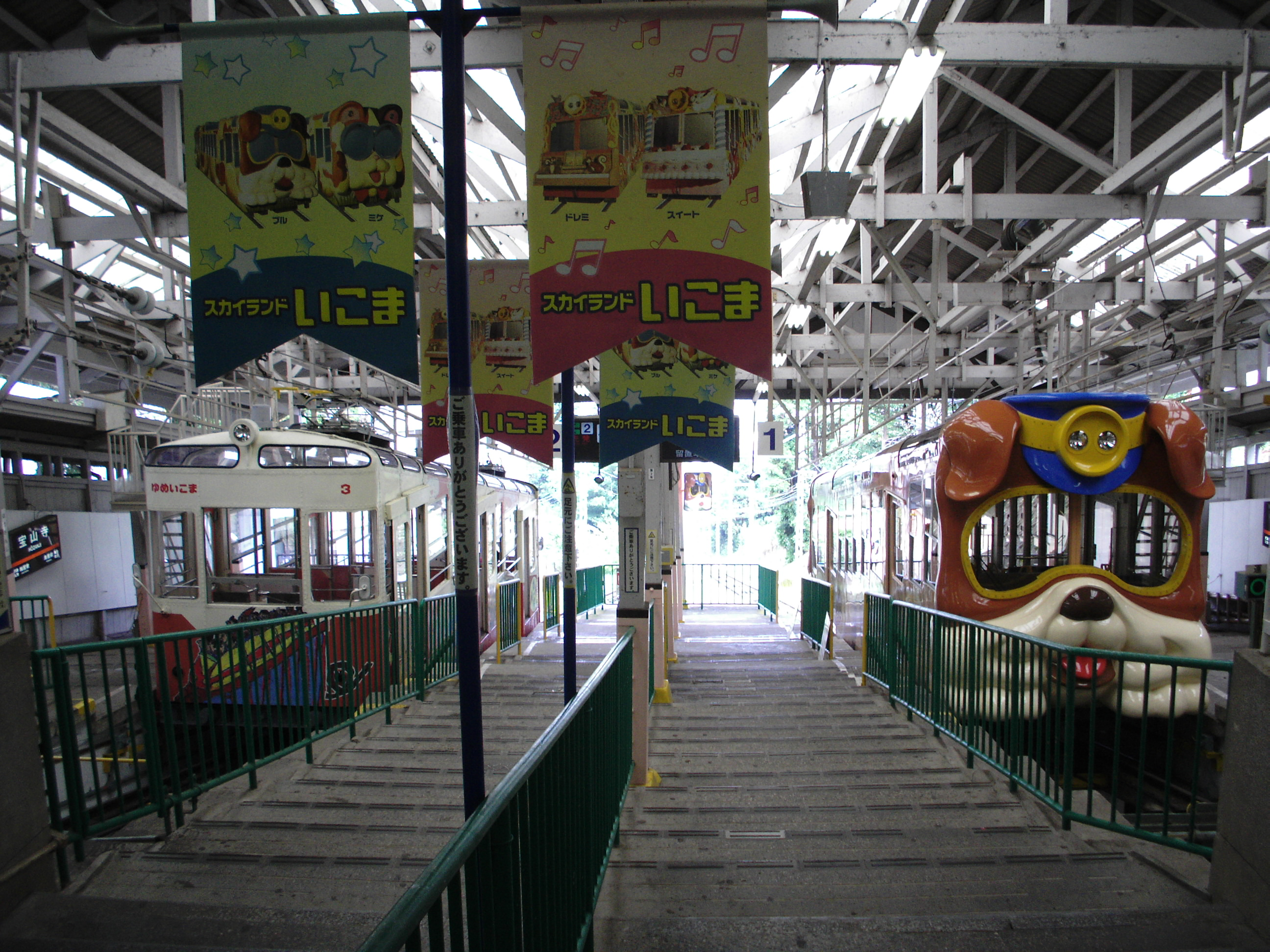 Hozanji Station platform